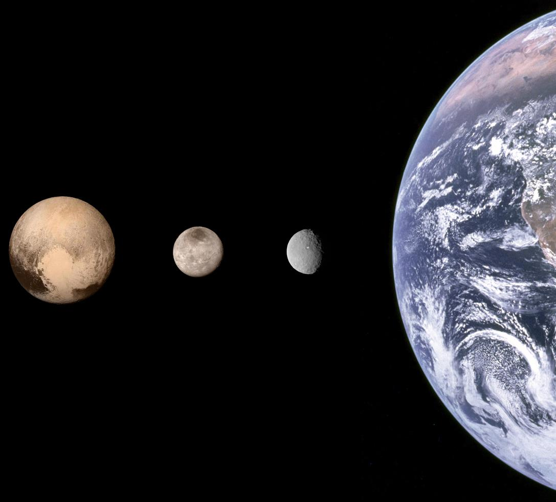 Three proposed planets post NH probe